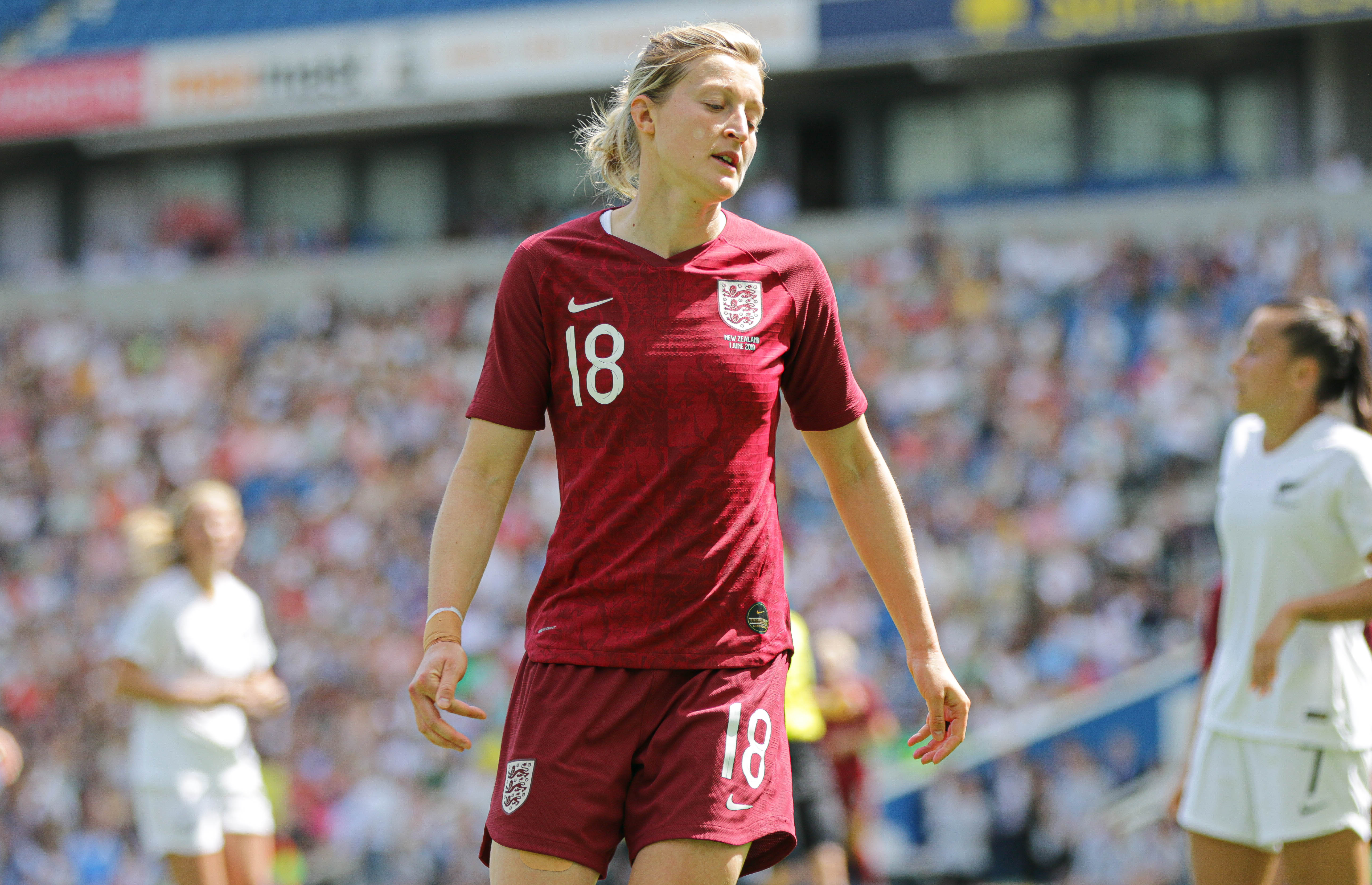 Depicted person: Ellen White – English association football player